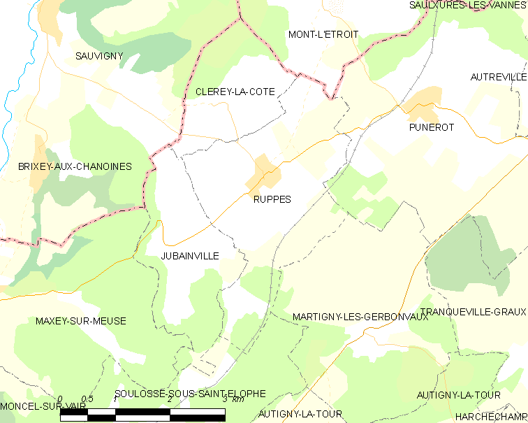 Map of French municipality Ruppes